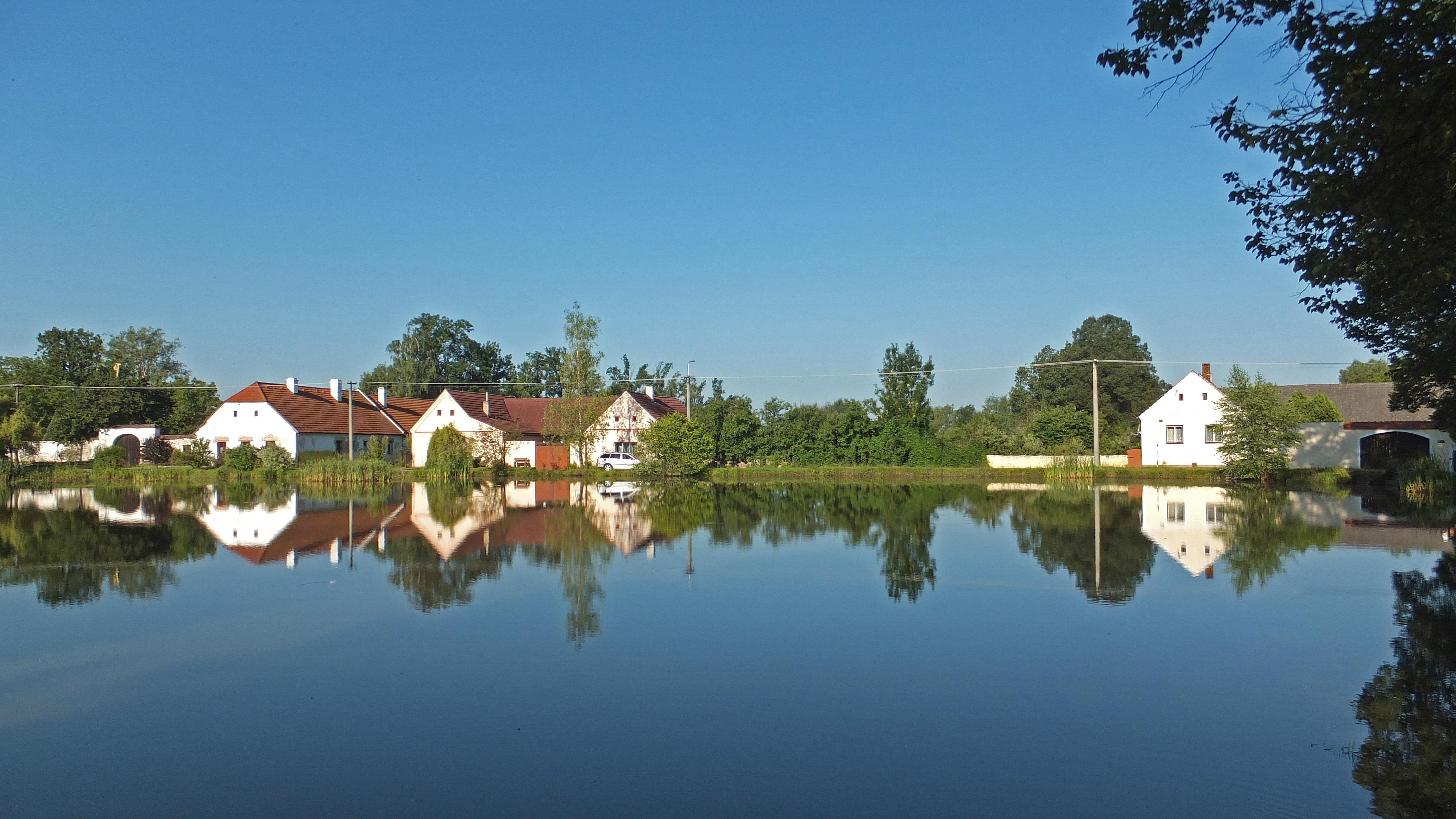 Pístina - the western side of the square